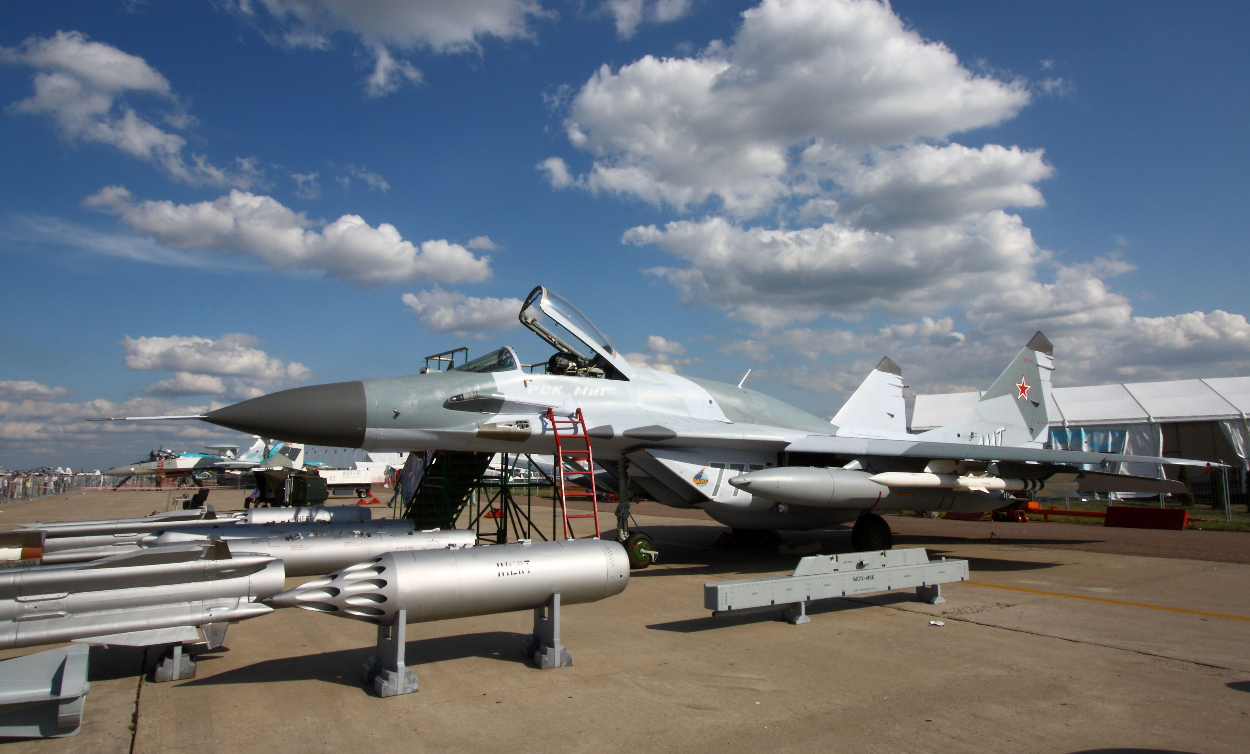 Fighter Mikoyan-Gurevich MiG-29SMT (The international aerospace salon MAKS-2011)